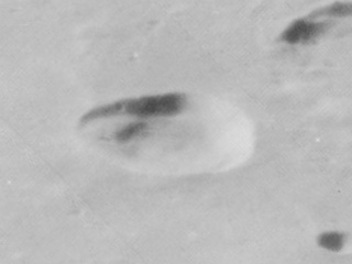 Oblique view of Sheepshanks crater, facing northwest, on the moon.